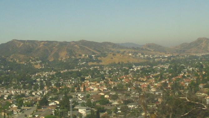 Simi Valley, California